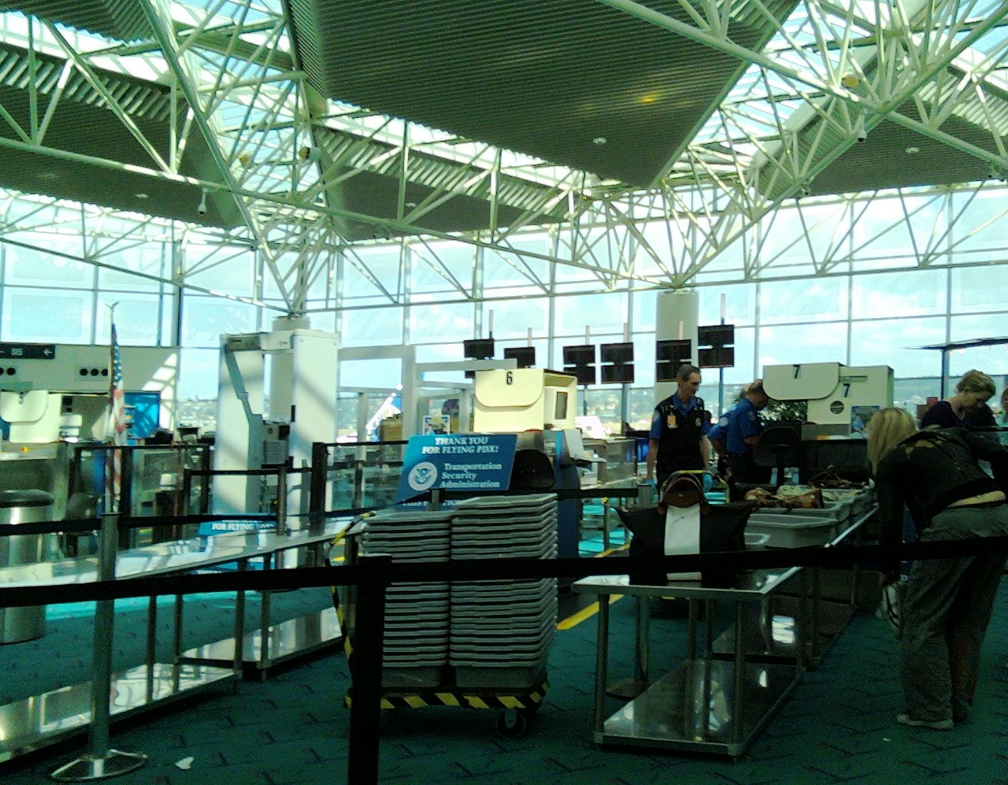 Security checkpoint area at Portland International Airport, C&D concourses